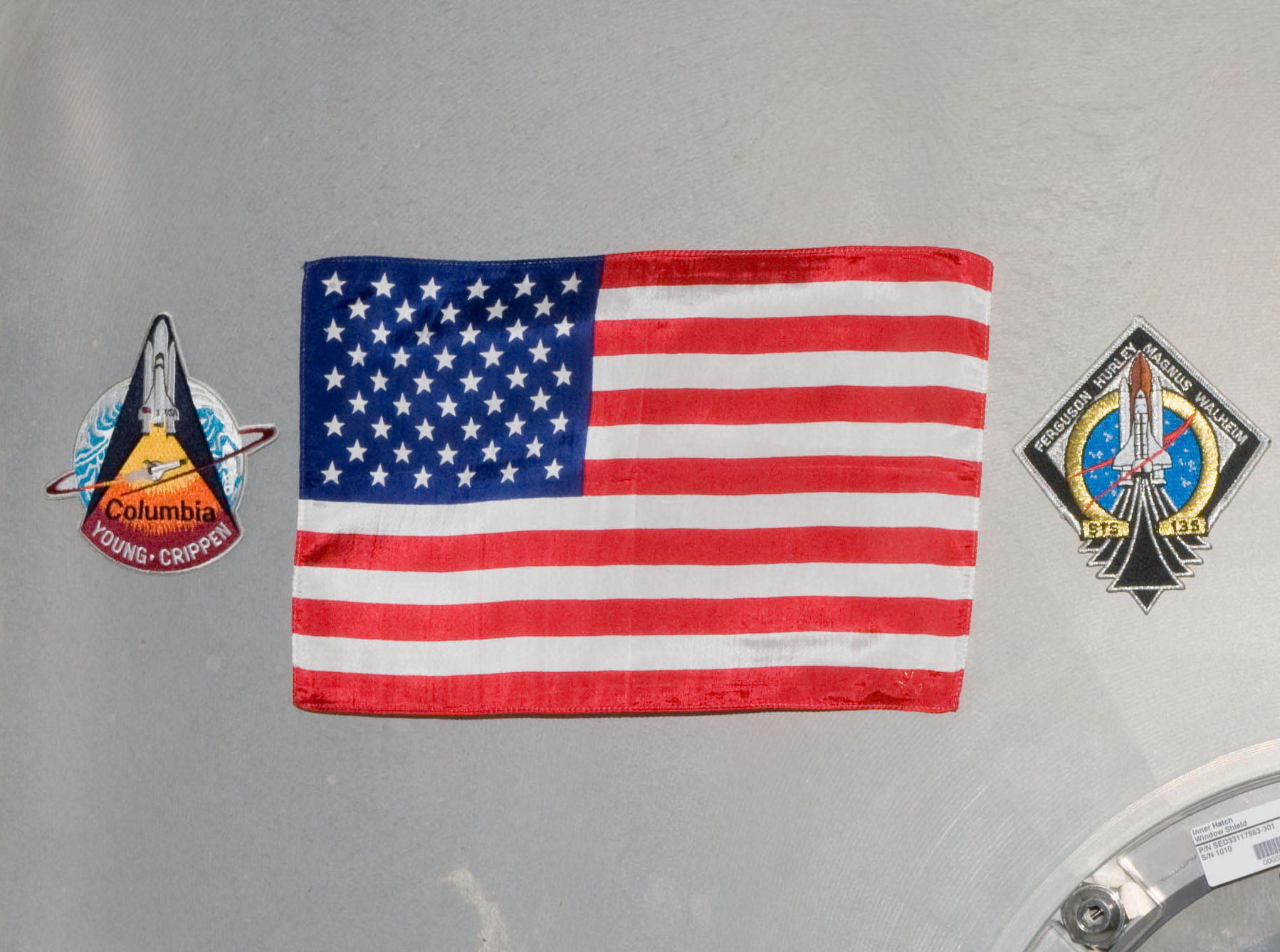 Inside the International Space Station's Node 2 or Harmony, the STS-135 crew presented the Expedition 28 crew this special U.S. flag and mounted it on the hatch leading to Atlantis. The flag was flown on the first space shuttle mission, STS-1, and flew on this mission to be presented to the space station crew. It will remain onboard until the next crew launched from the U.S. will retrieve it for return to Earth. It will fly from Earth again, with the crew that launches from the U.S. on a journey of exploration beyond Earth orbit.